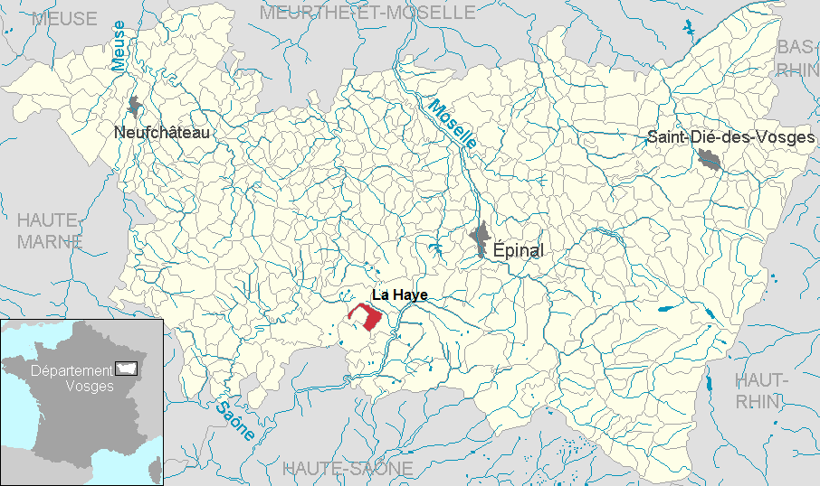 La Haye in the department of Vosges, Lorraine, France